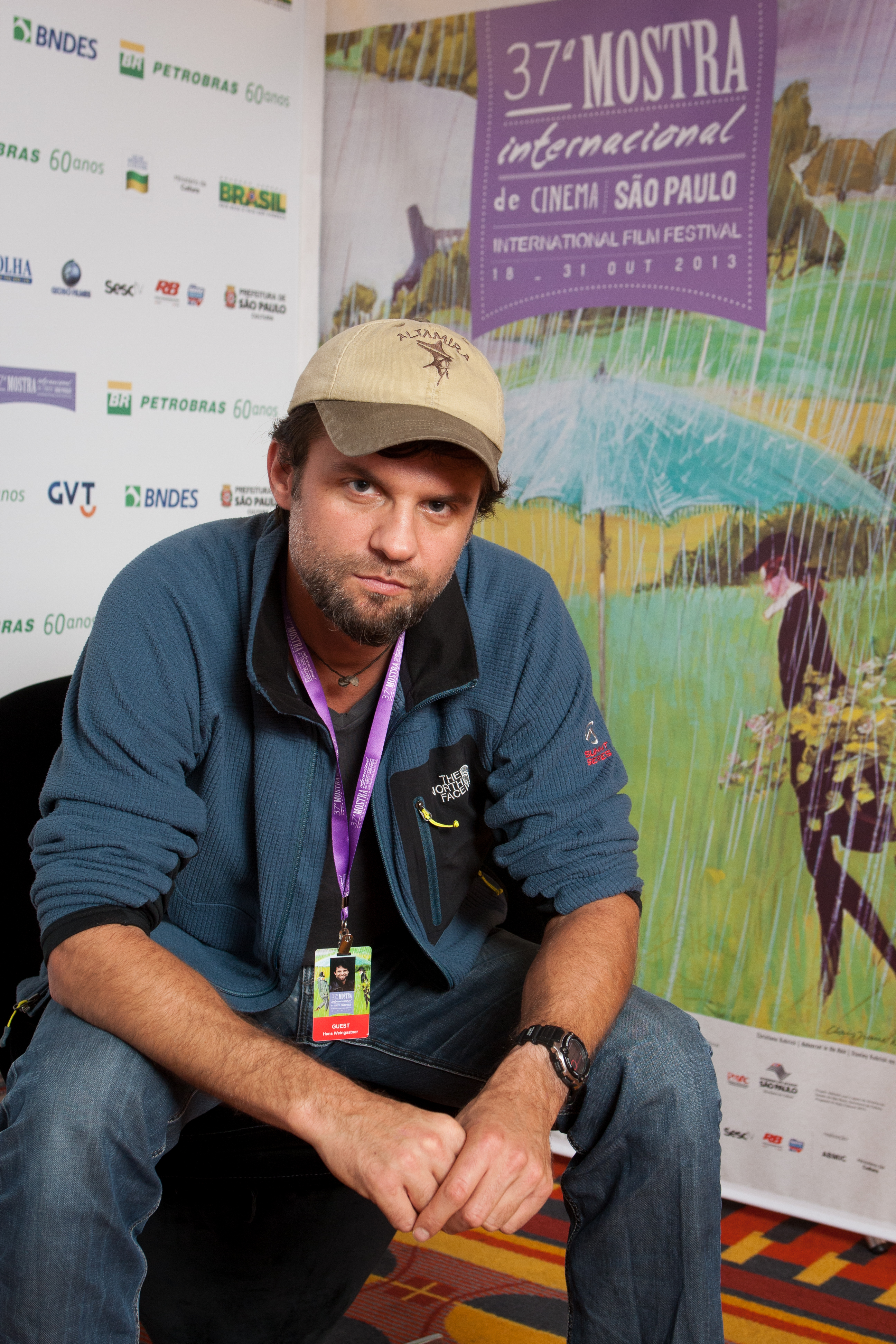 Hans Weingartner as a jury member at the Sao Paolo Film Festival of 2013.